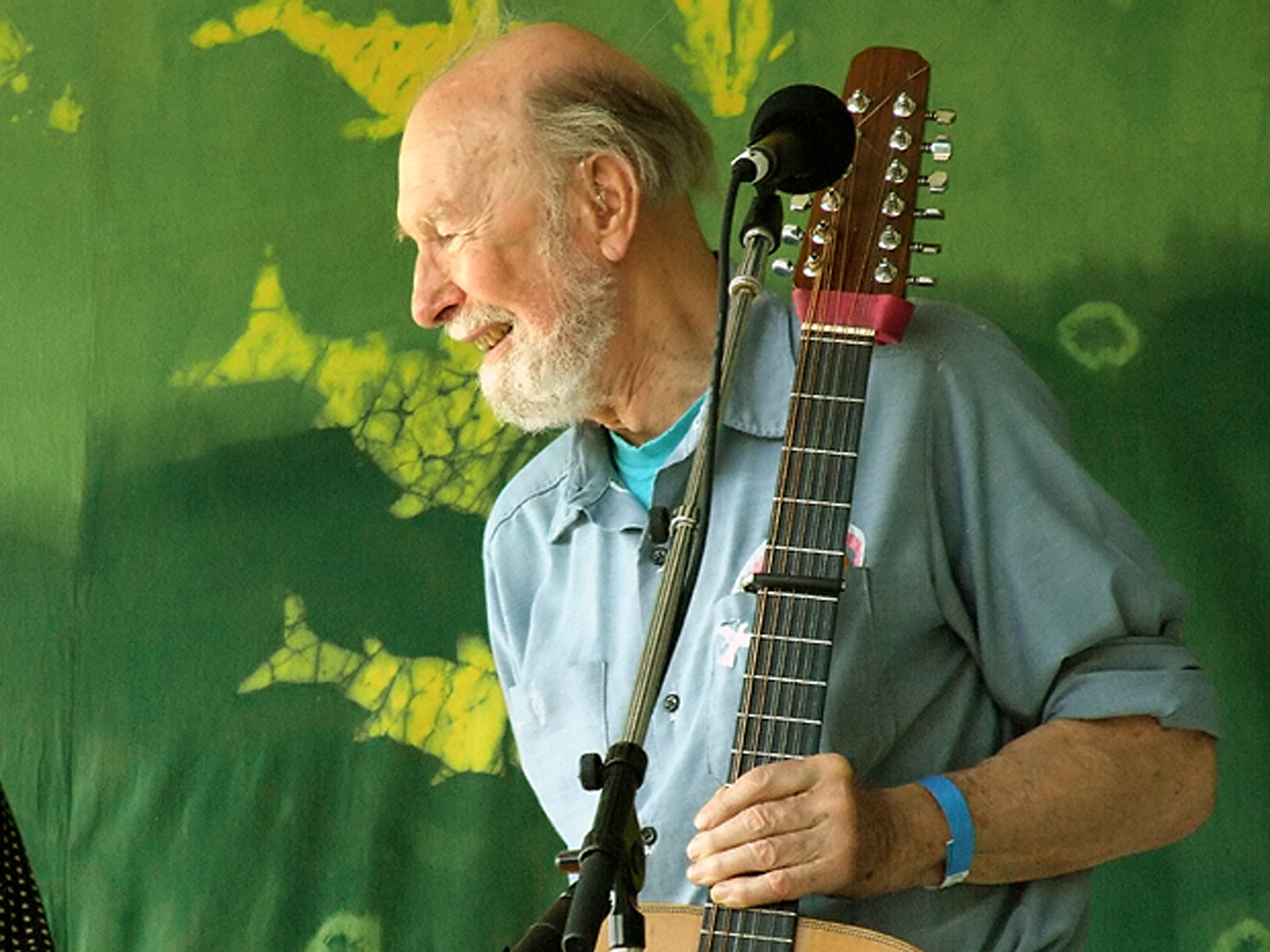 Pete Seeger at age 88 photographed on 6-16-07 at the Clearwater Festival 2007 by Anthony Pepitone